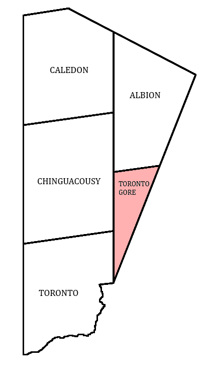 Locator map for Toronto Gore Township, Ontario, within Peel County, Ontario.